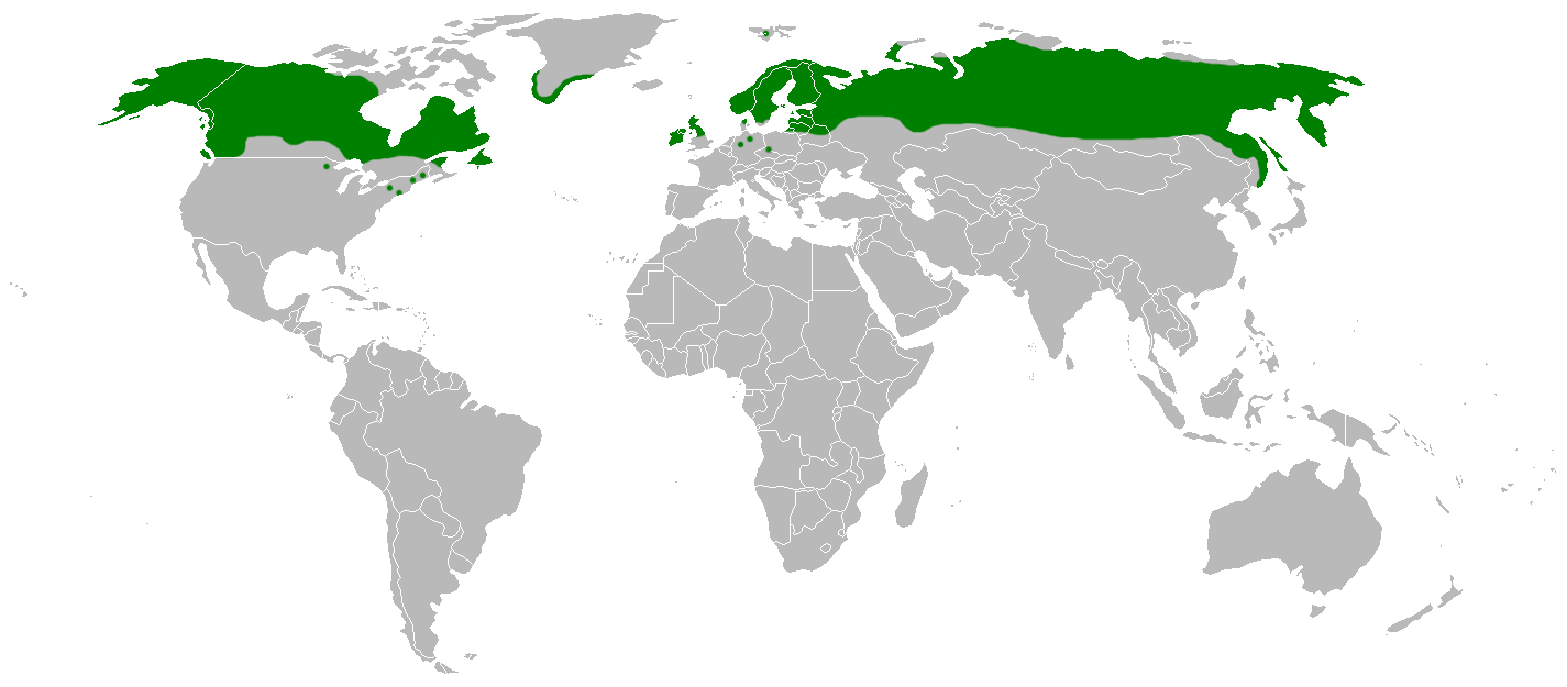 The distribution of cloudberry (Rubus chamaemorus) in the world. The distribution areas for Eastern Europe, Russia and Greenland are estimates only. Feel free to modify if you can find a distribution map for these areas.